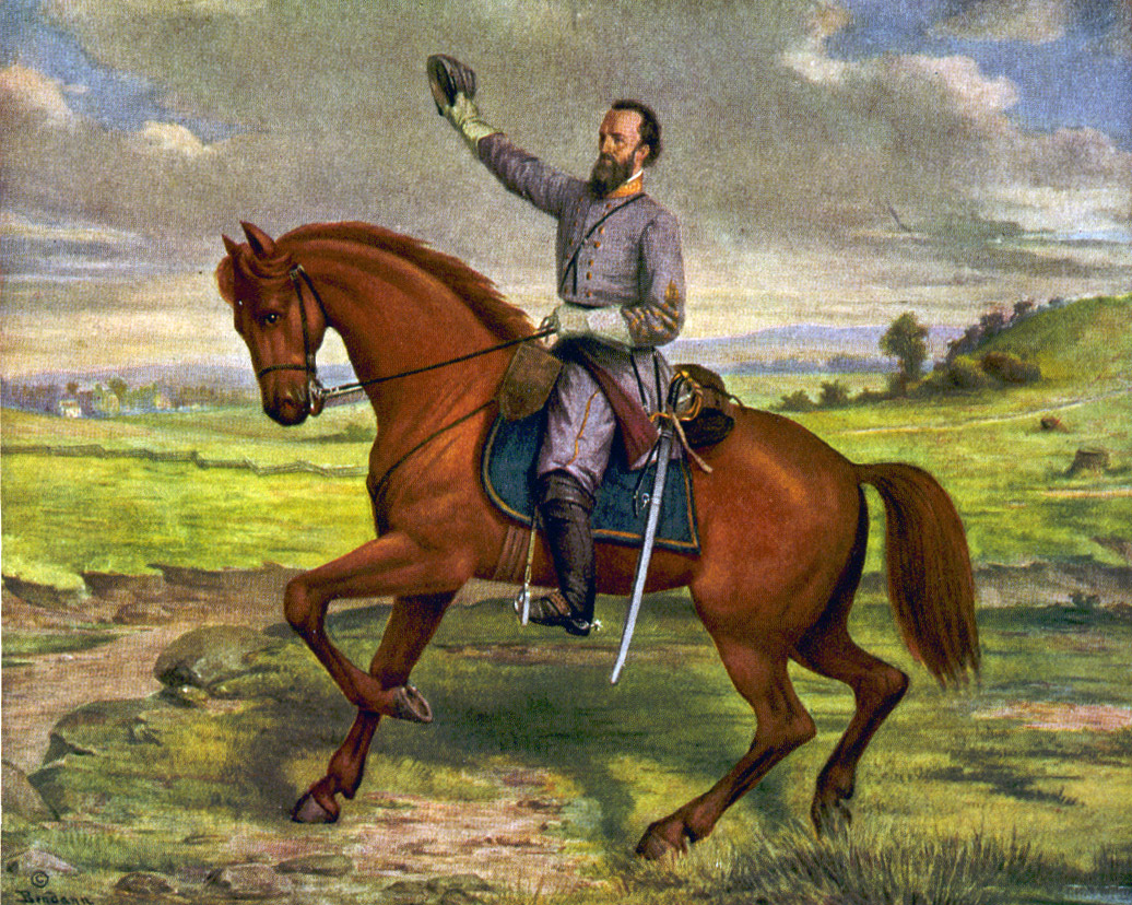 Library of Congress. Artist: David Bendann